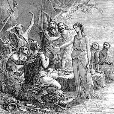 The_foundation_of_Marseilles